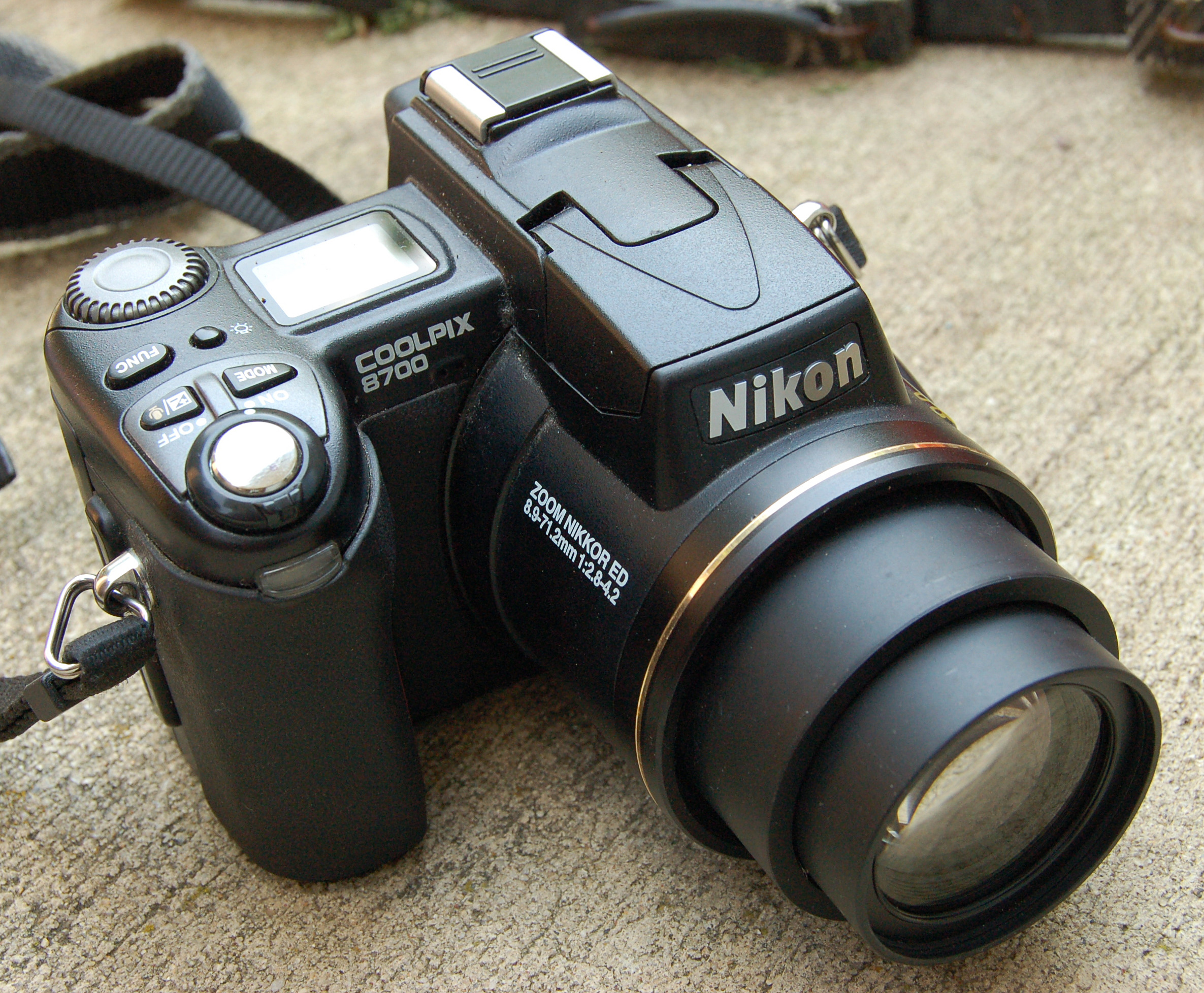 A picture of the front of a Nikon Coolpix 8700.